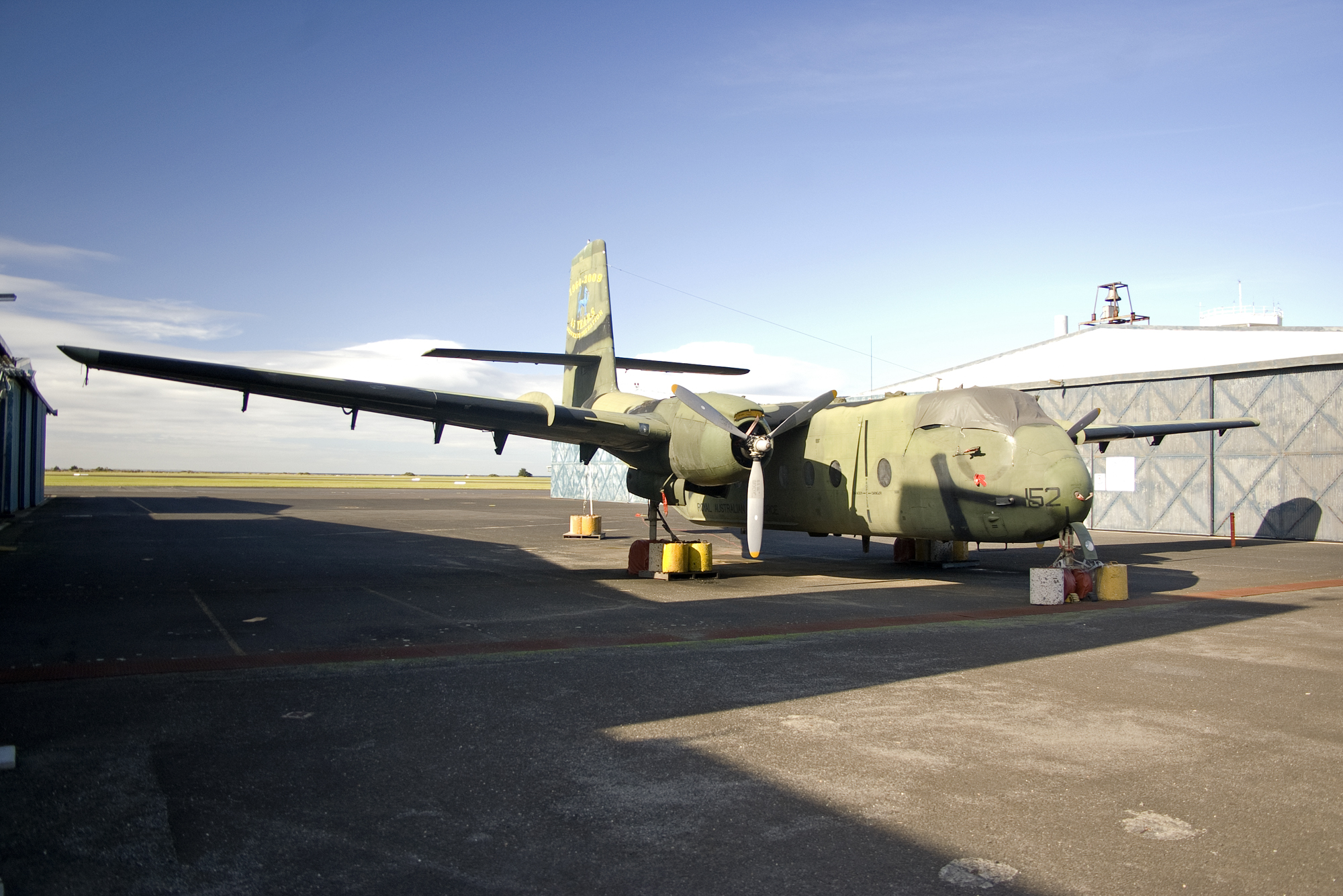 de Havilland Canada DHC-4 Caribou A4-152 on display at the RAAF Museum.